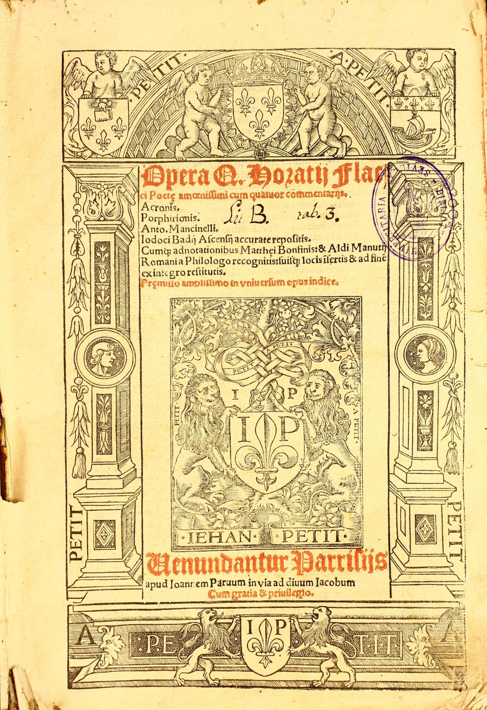 Horace, Opera 1517 title page